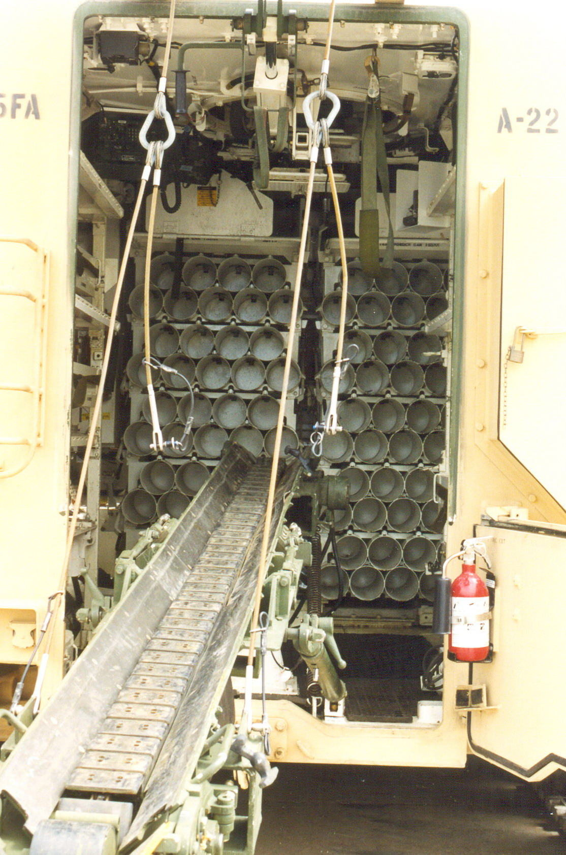 M-992